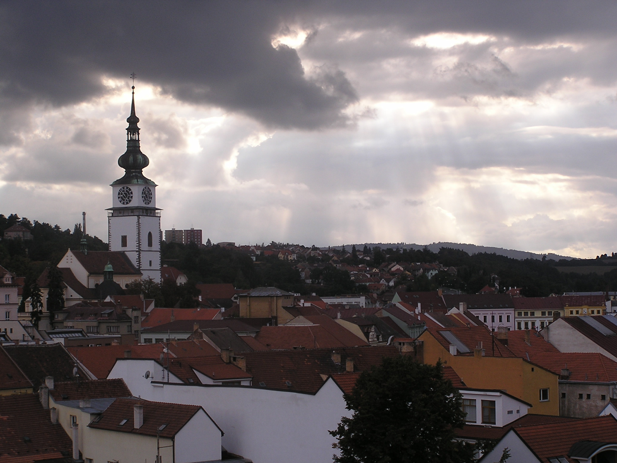 Třebíč photo